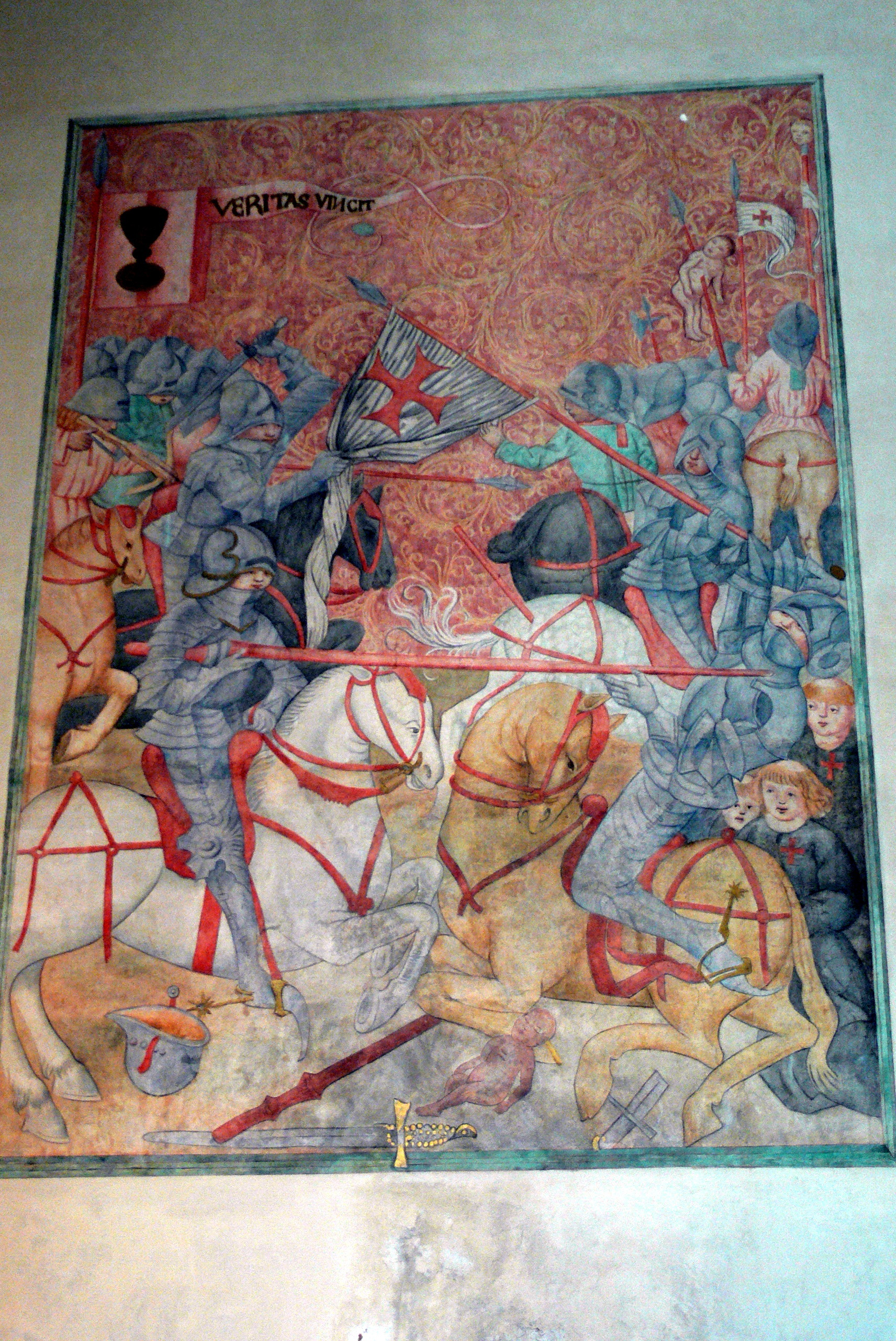 Bethlehem chapel ( Prague ). Wallpainting showing the battle of Domažlice.